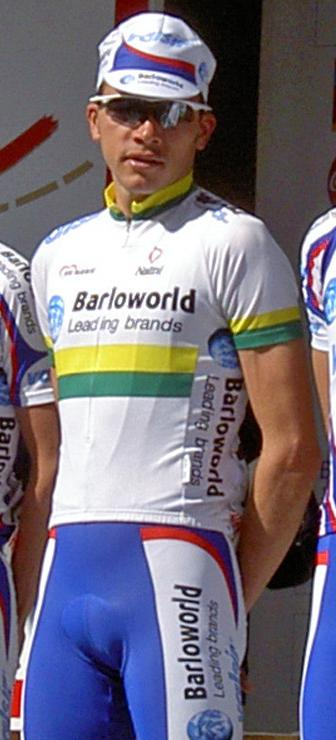 Ryan Cox (passed away August 1, 2007)